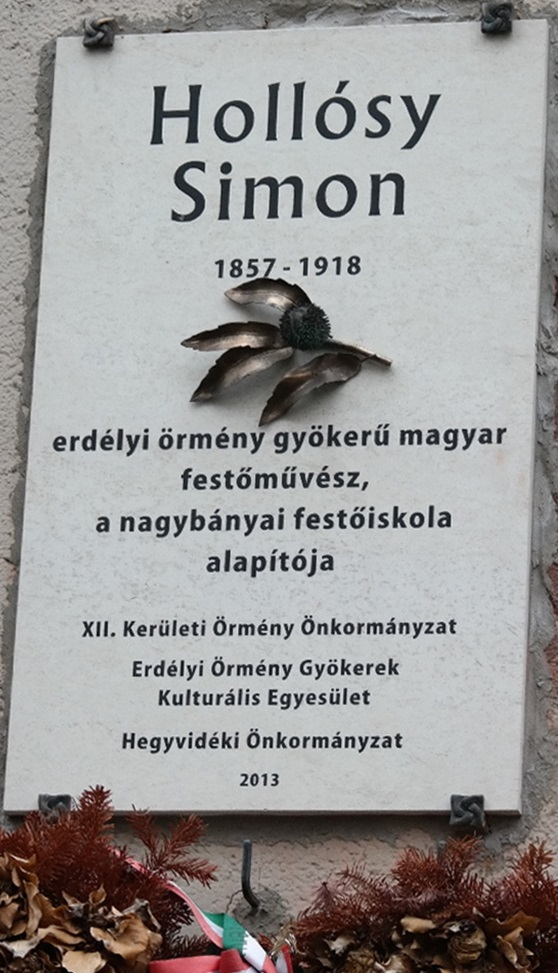 Simon Hollósy commemorative plaque in Budapest District XII, Hollósy Simon Street No 1